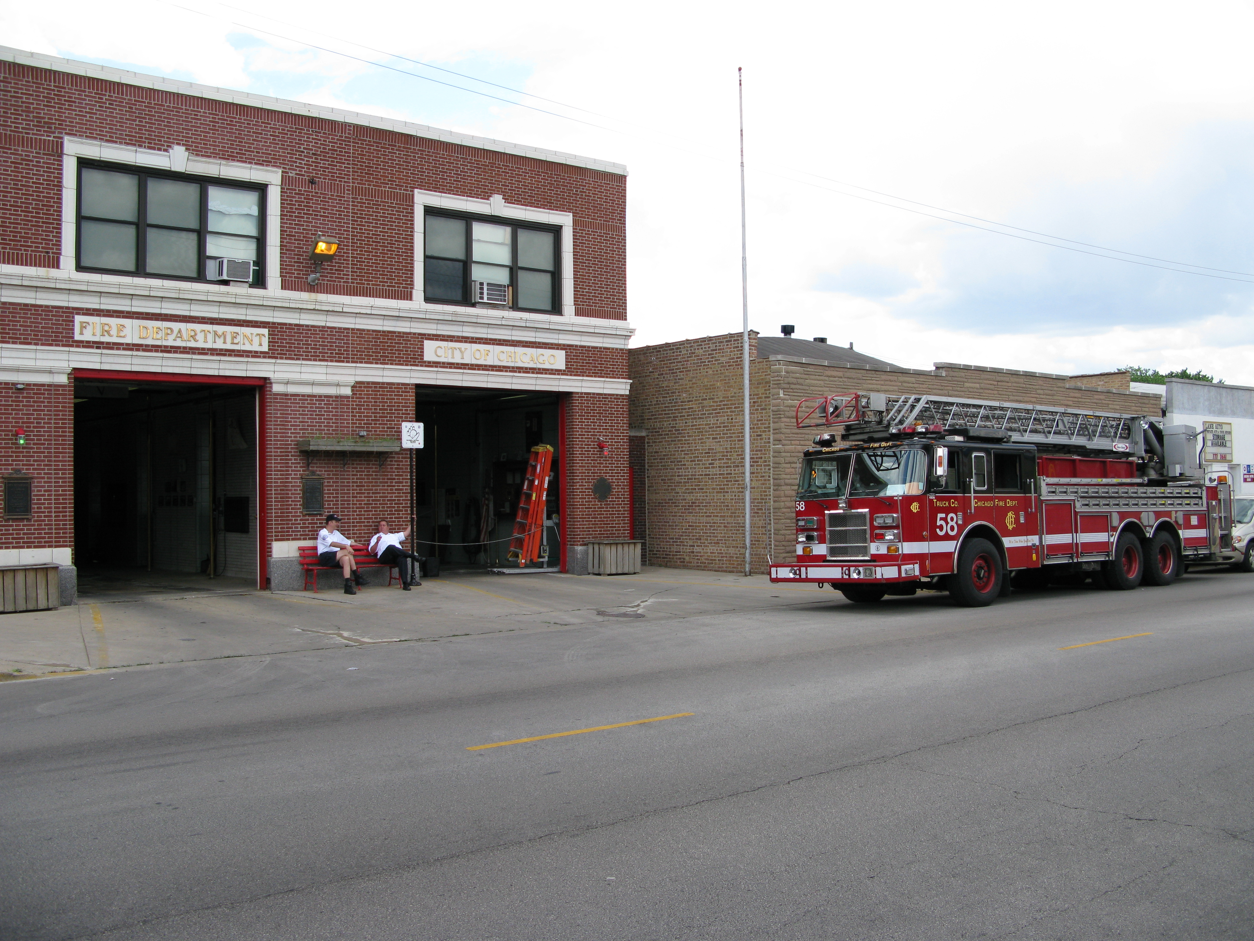 City of Chicago Fire Department 4911 W Belmont, Chicago, IL